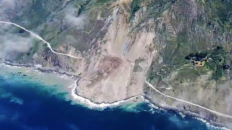 Aerial image of the large mud slide at Mud Creek on Highway 1 in Big Sur.